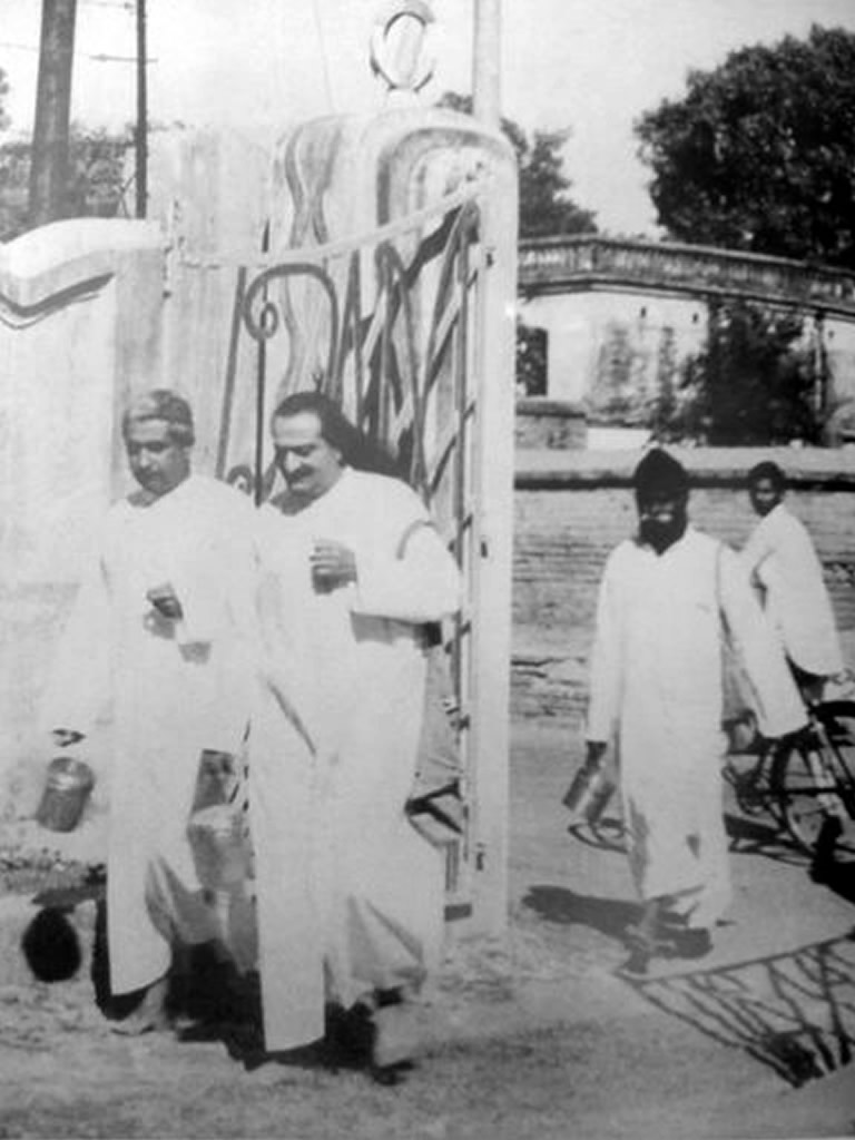 Meher Baba in the New Life in November 1949